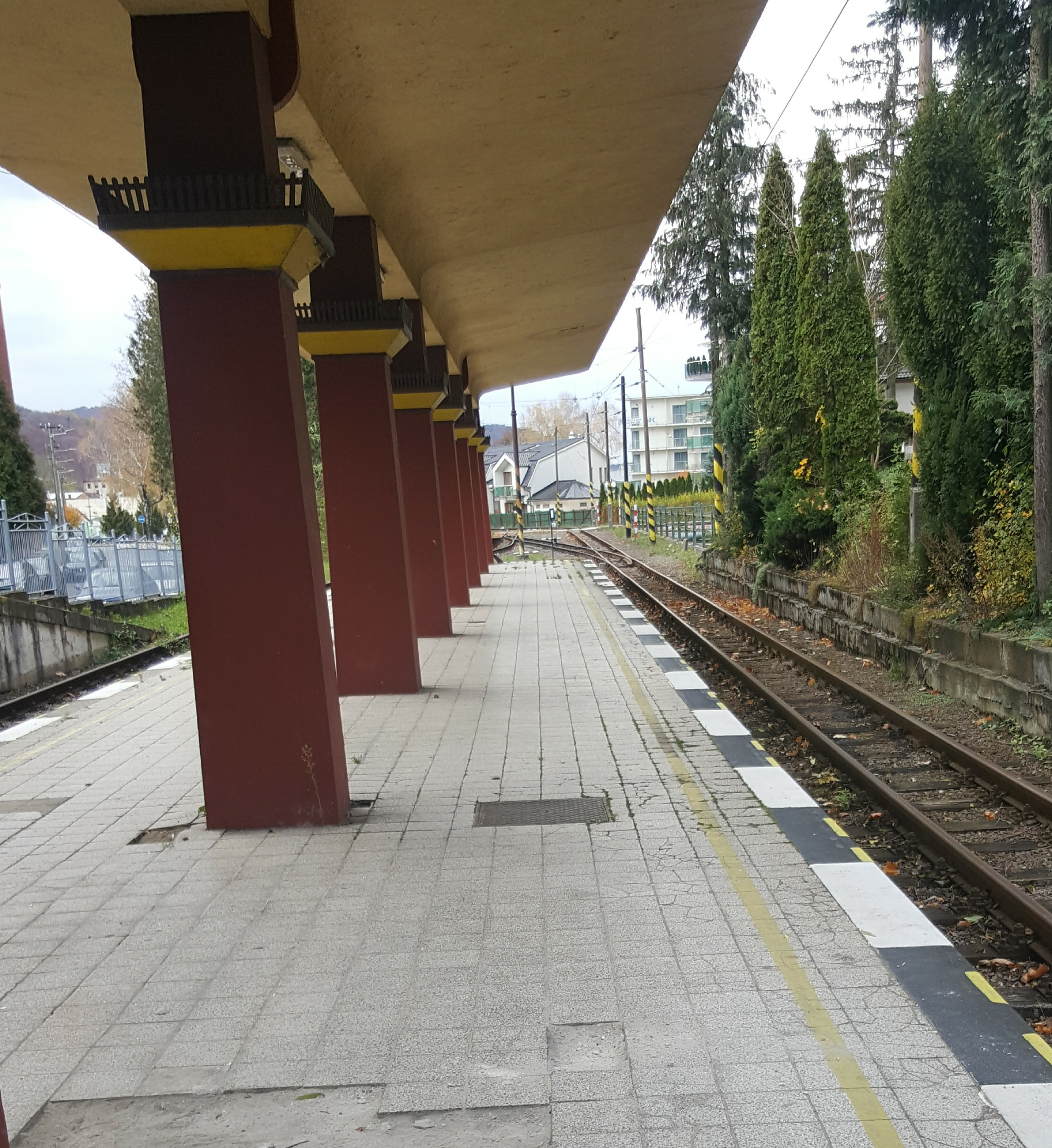 Trenčin Electric Railway station at Trenčianske Teplice, Slovakia